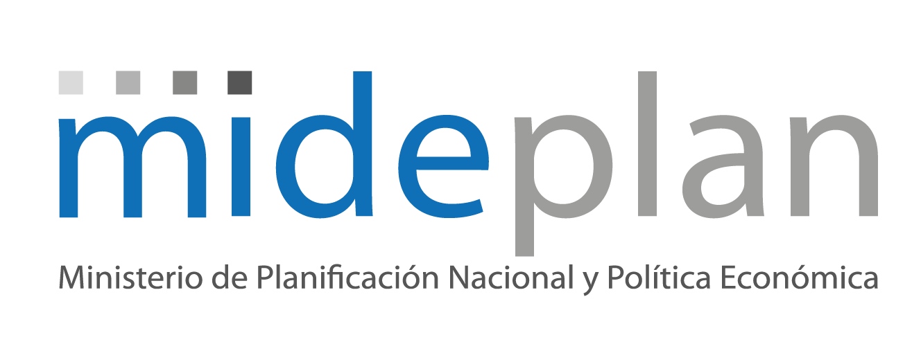 logo Ministerio de Planificación Nacional y Política Económica